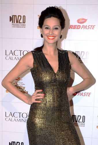 Colors indian telly awards